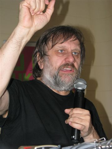 Slavoj Žižek (b. 1949) - Slovenian philosopher, Lacanian Marxist sociologist, psychoanalyst, and cultural critic